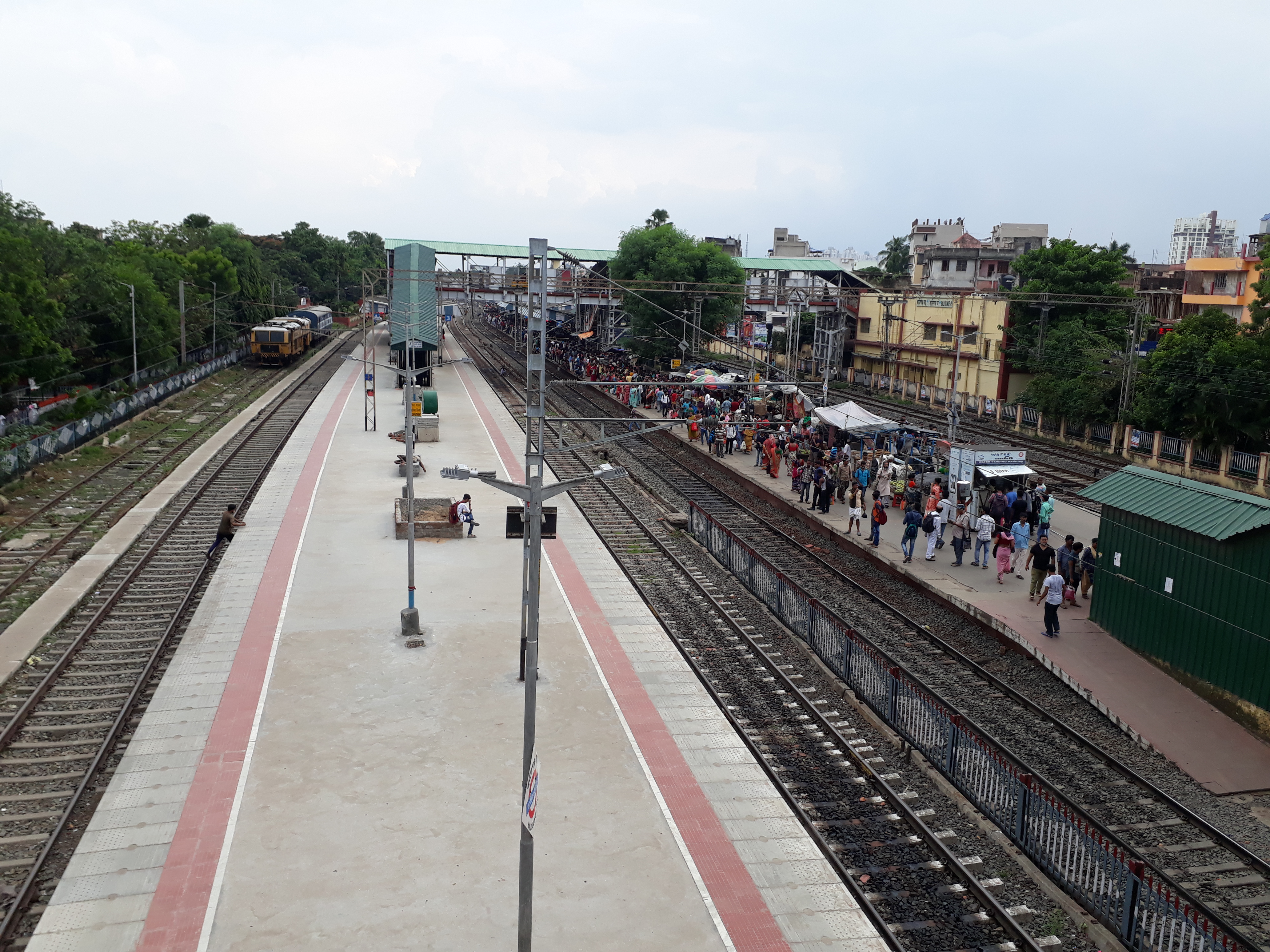 Ballygunge Junction railway station in Sealdah south section, South 24 Pgns